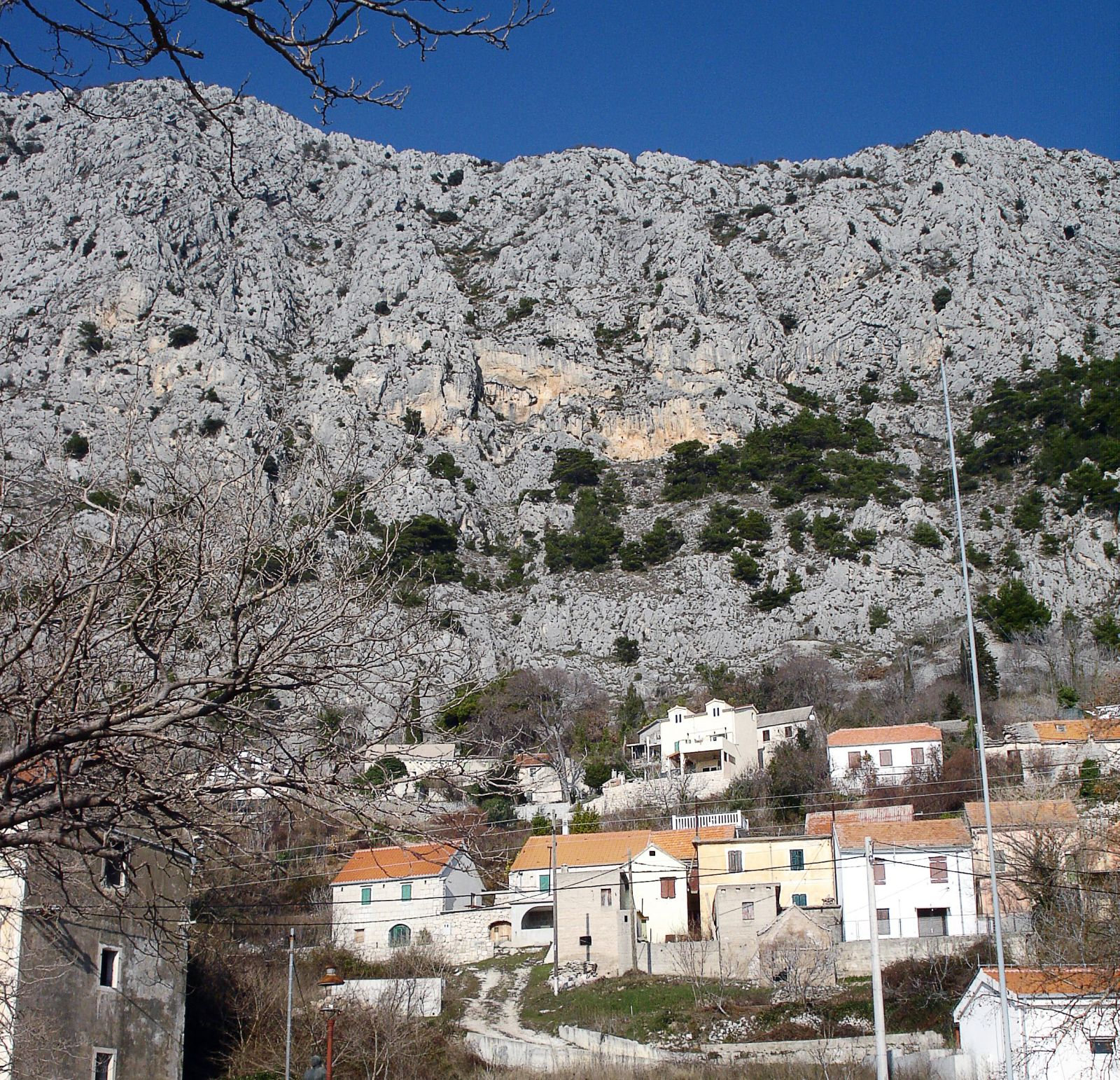 Lokva Rogoznica near Omiš, Croatia.